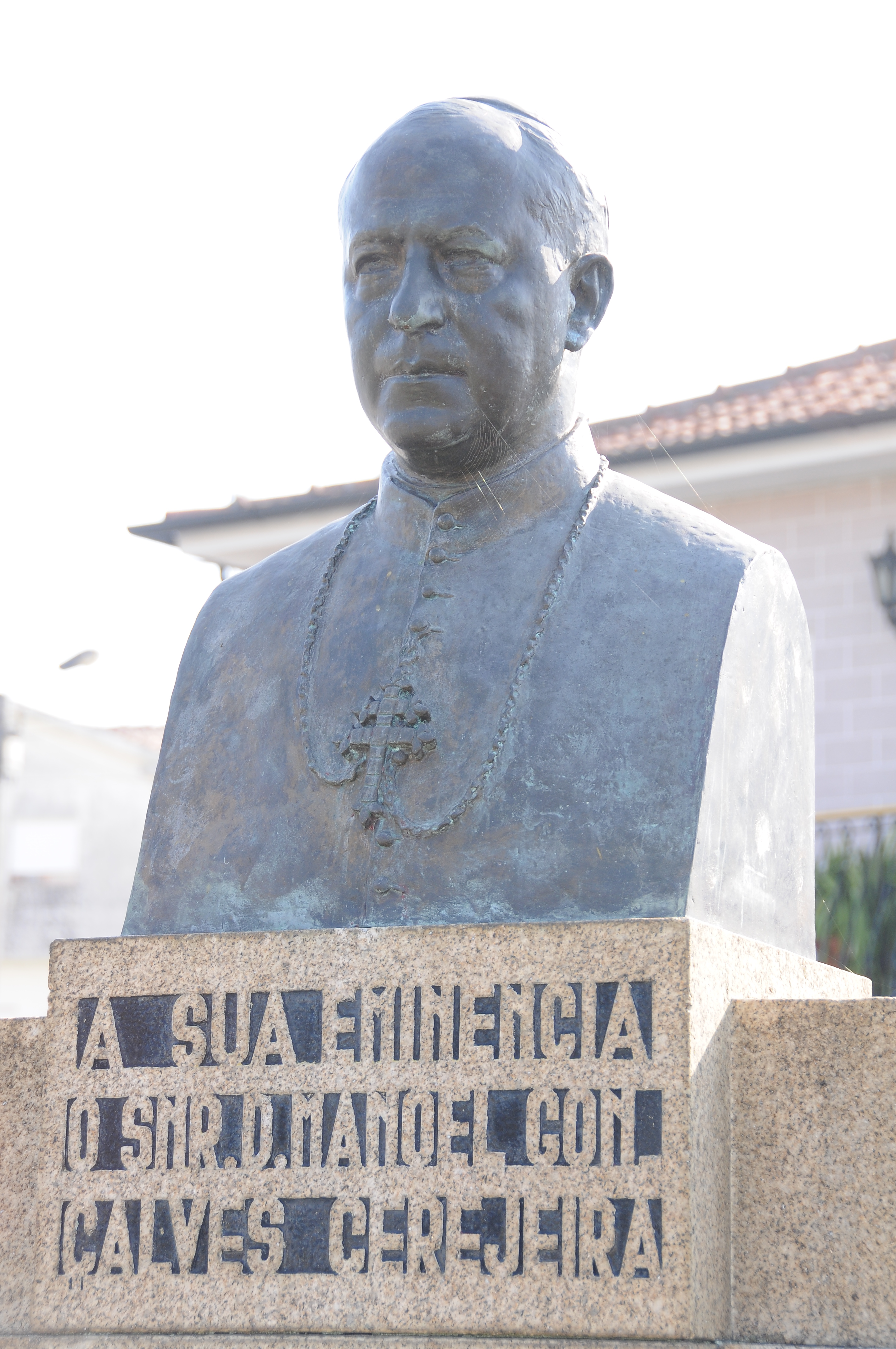 Bust of Manuel Gonçalves Cerejeira in Lousado, Famalicão, Portugal.